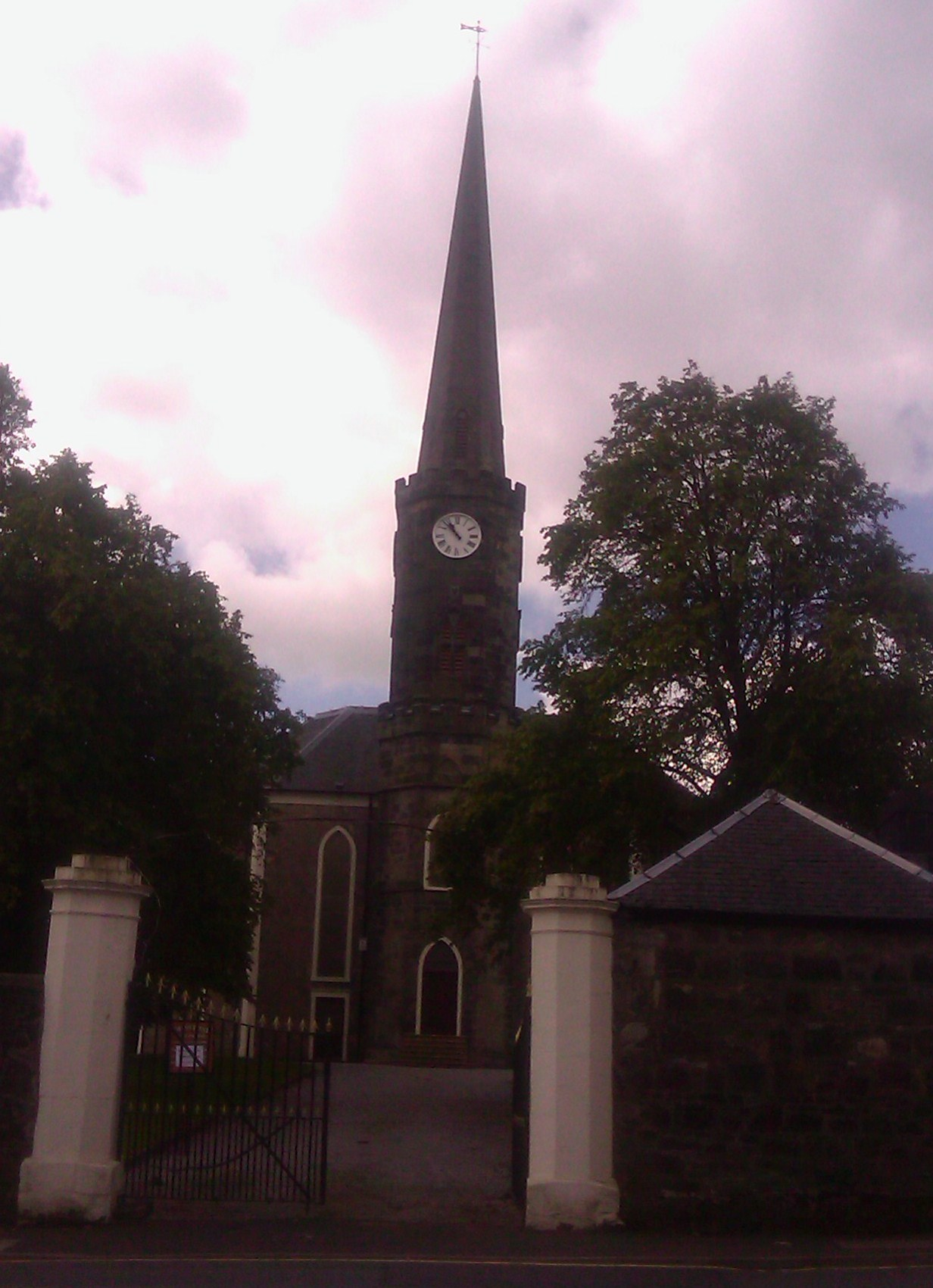 The High Parish Church in Johnstone, Renfrewshire, Scotland, UK.